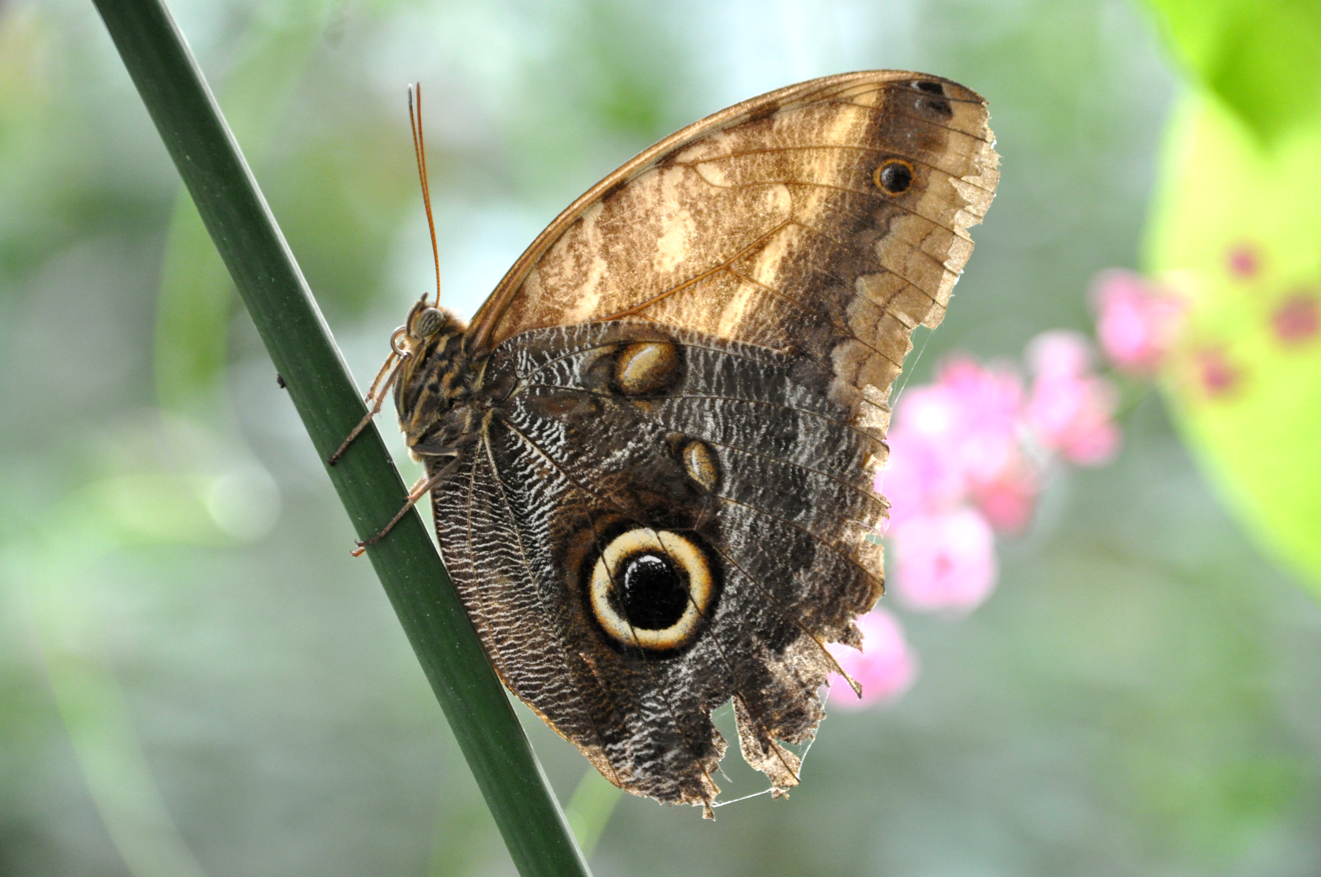 Purple Owl (Caligo beltrao)